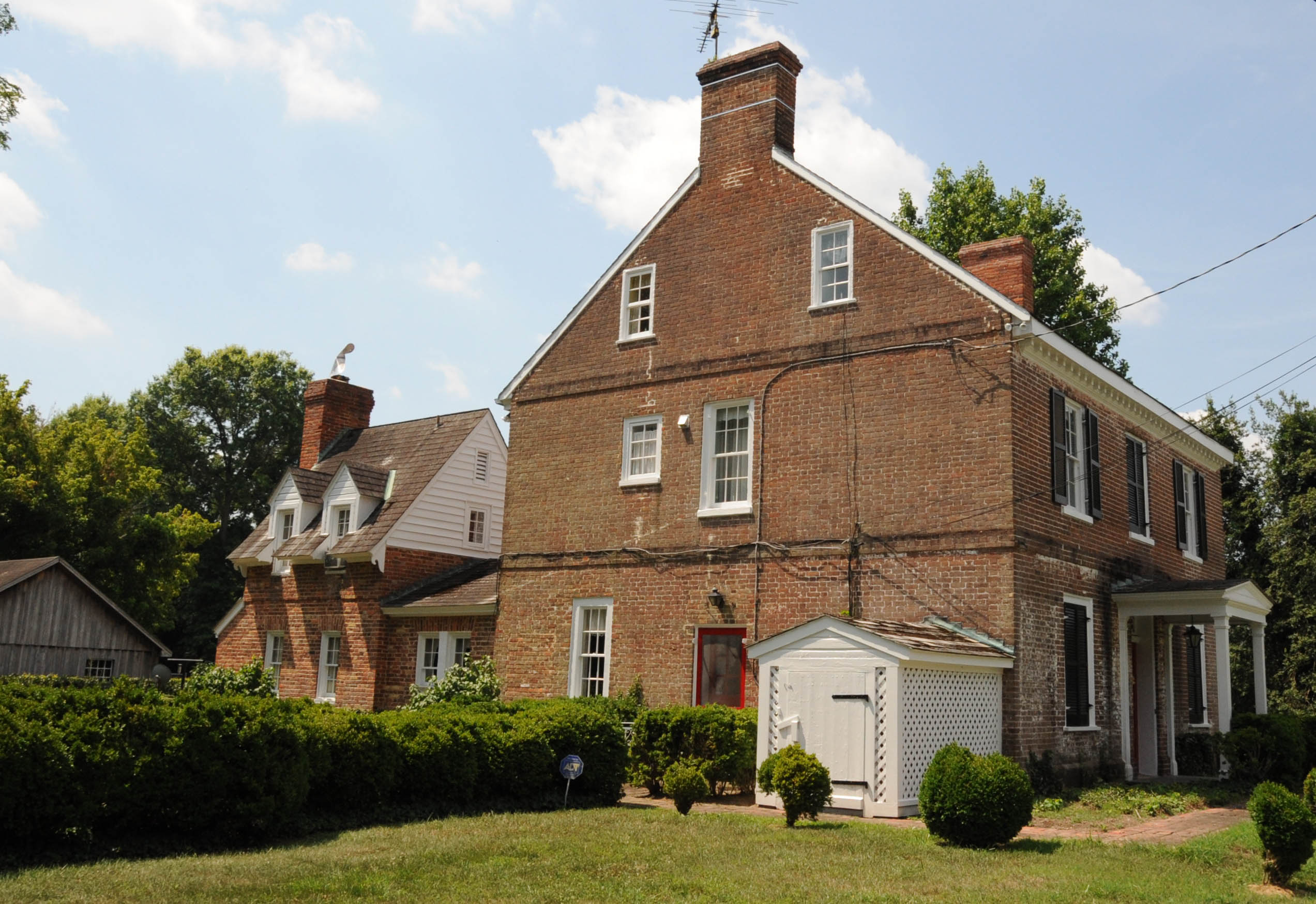 HARDY’S TAVERN - GEORGIAN-STYLE DWELLING CONSTRUCTED CA 1790 AND IS THE ONLY REMAINING GEORGIAN STRUCTURE IN PISCATAWAY VILLAGE